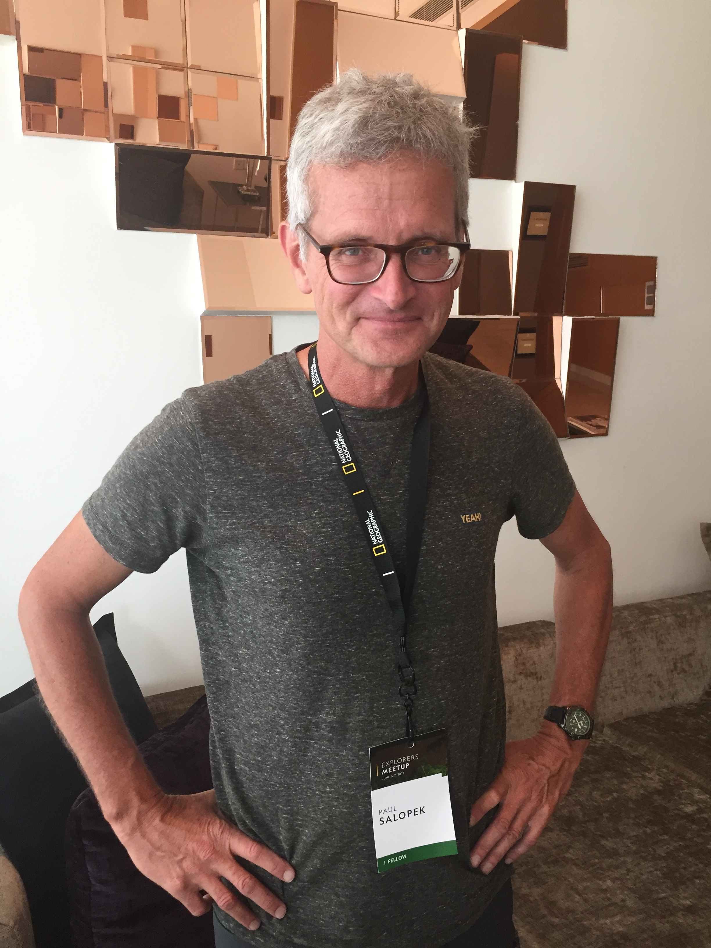 Paul Salopek in Delhi, India.